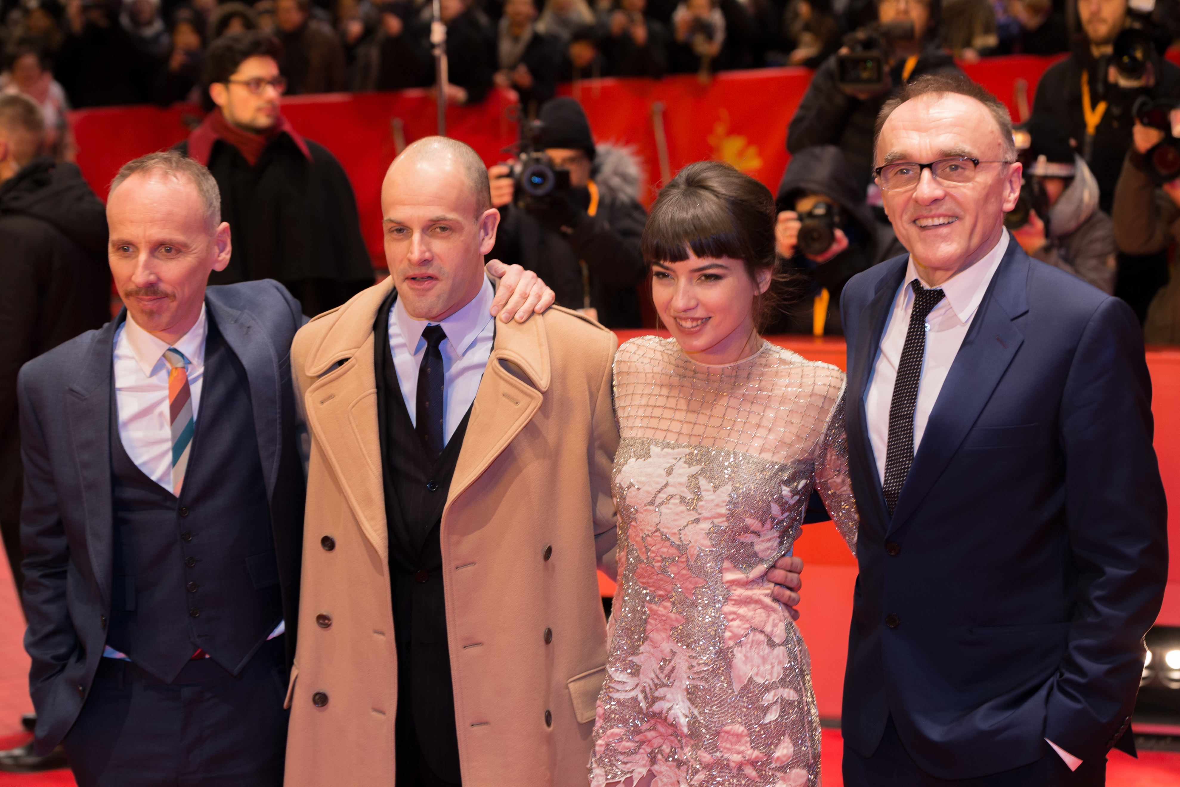 The film team at the opening night of T2 Trainspotting, Berlinale 2017